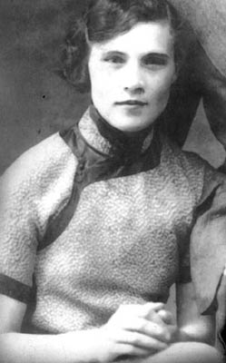 Faina Chiang Fang-liang in 1944, cropped from the image at